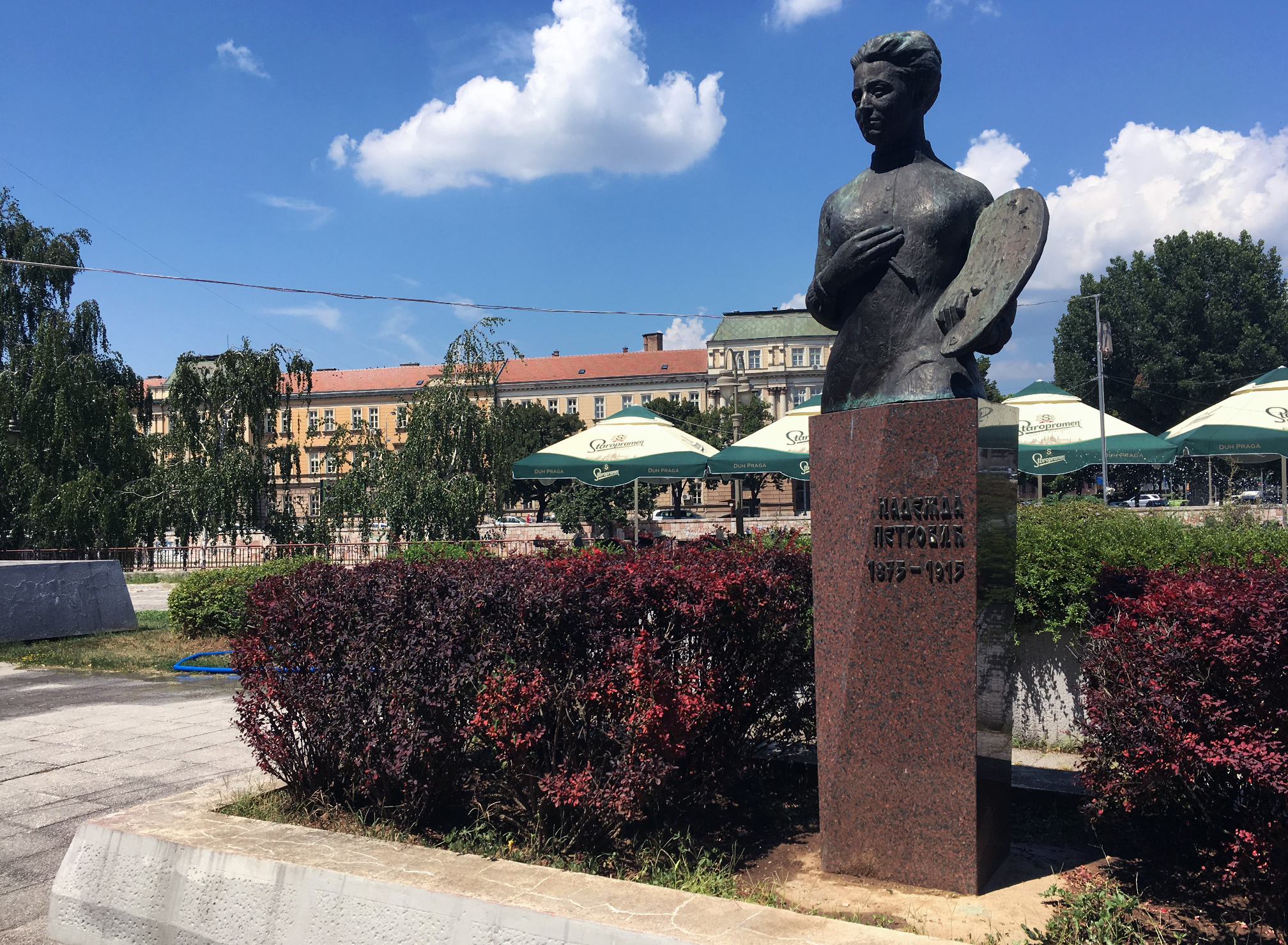 A monument to Nadežda Petrović in the city of Niš.